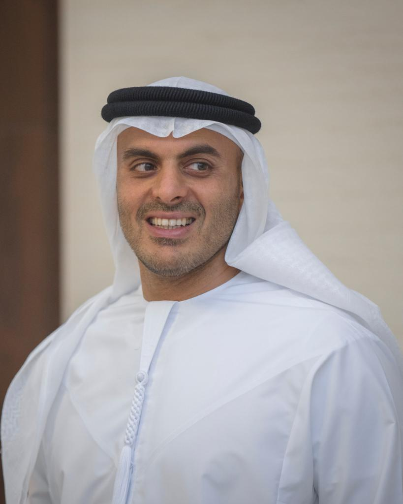 Tarik bin Faisal Al Qassemi at a meeting Arab Union for Entrepreneurship Enshaa